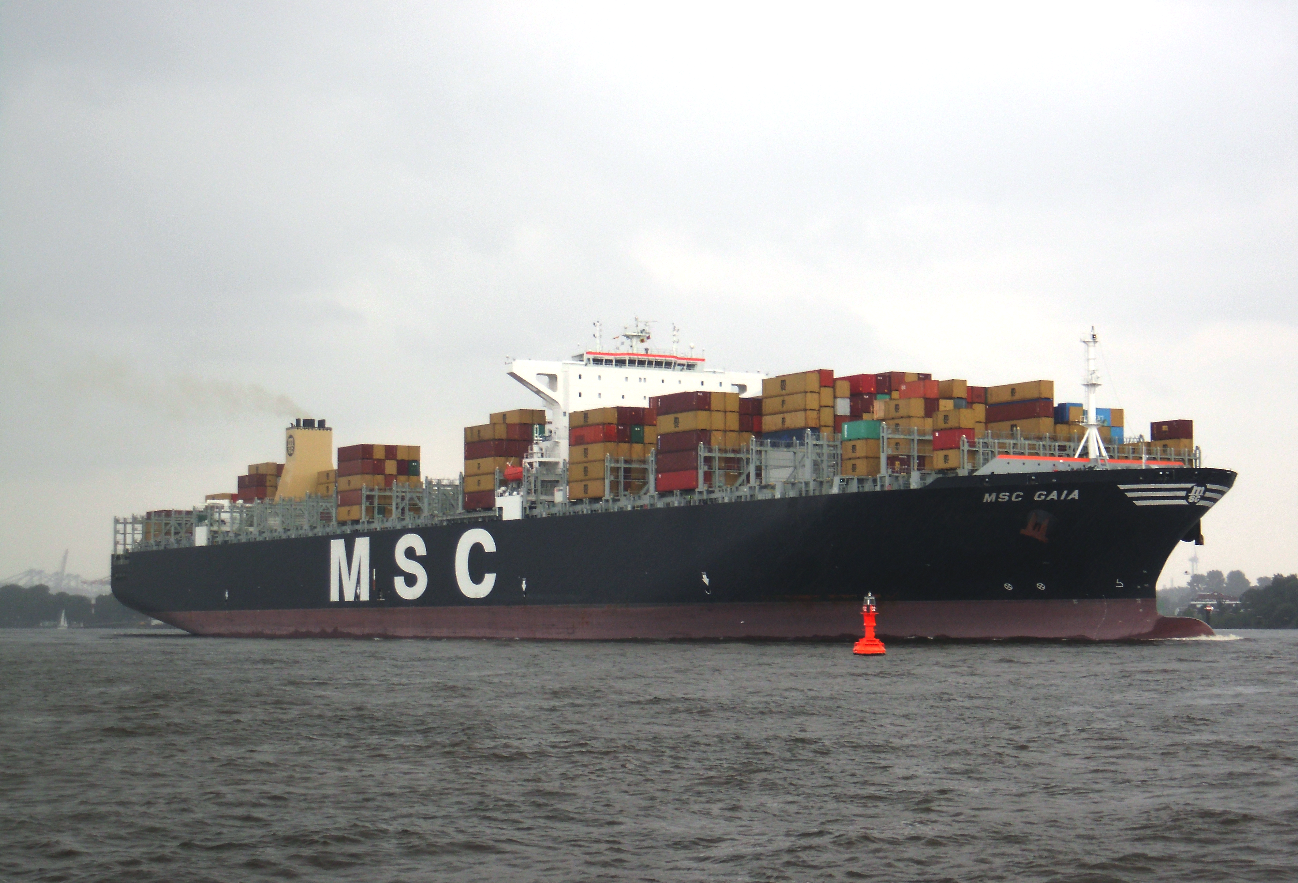 Container ship MSC Gaia on the river Elbe